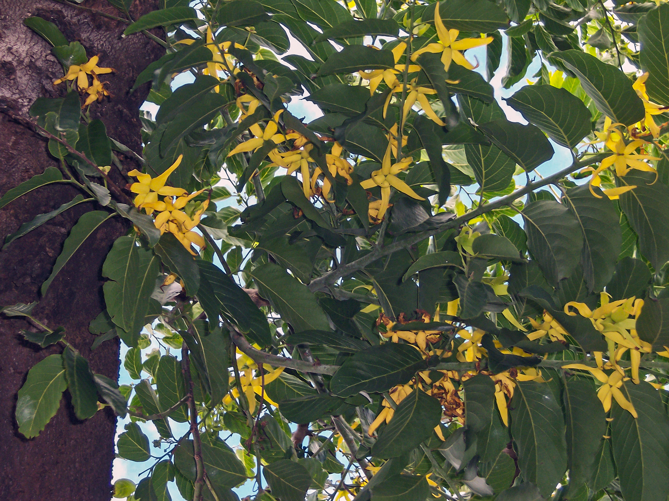 ylang-ylang flowers